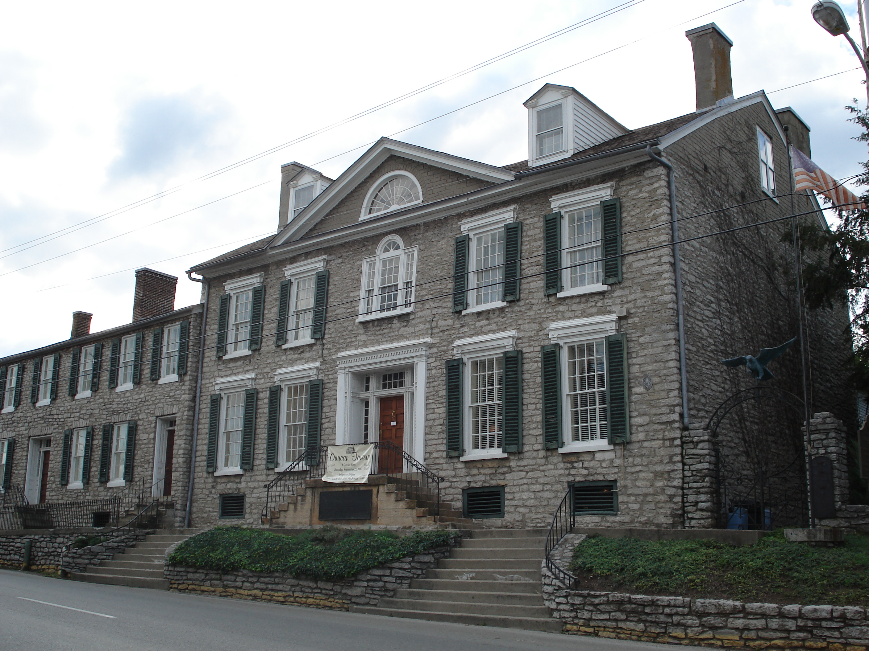 Duncan Tavern, Paris, Kentucky.